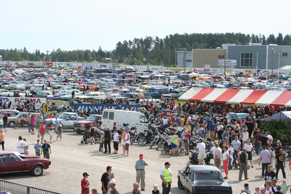 Picknick 2007 in Forssa